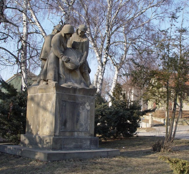 Photo of statue from Czech sculptor Jan Štursa (1880-1925), dedicated to the deceased during World War I, commonly known as "Funeral in Carpathians". Located in village Předměřice nad Jizerou.